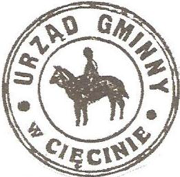 Seal of Cięcina from 1926